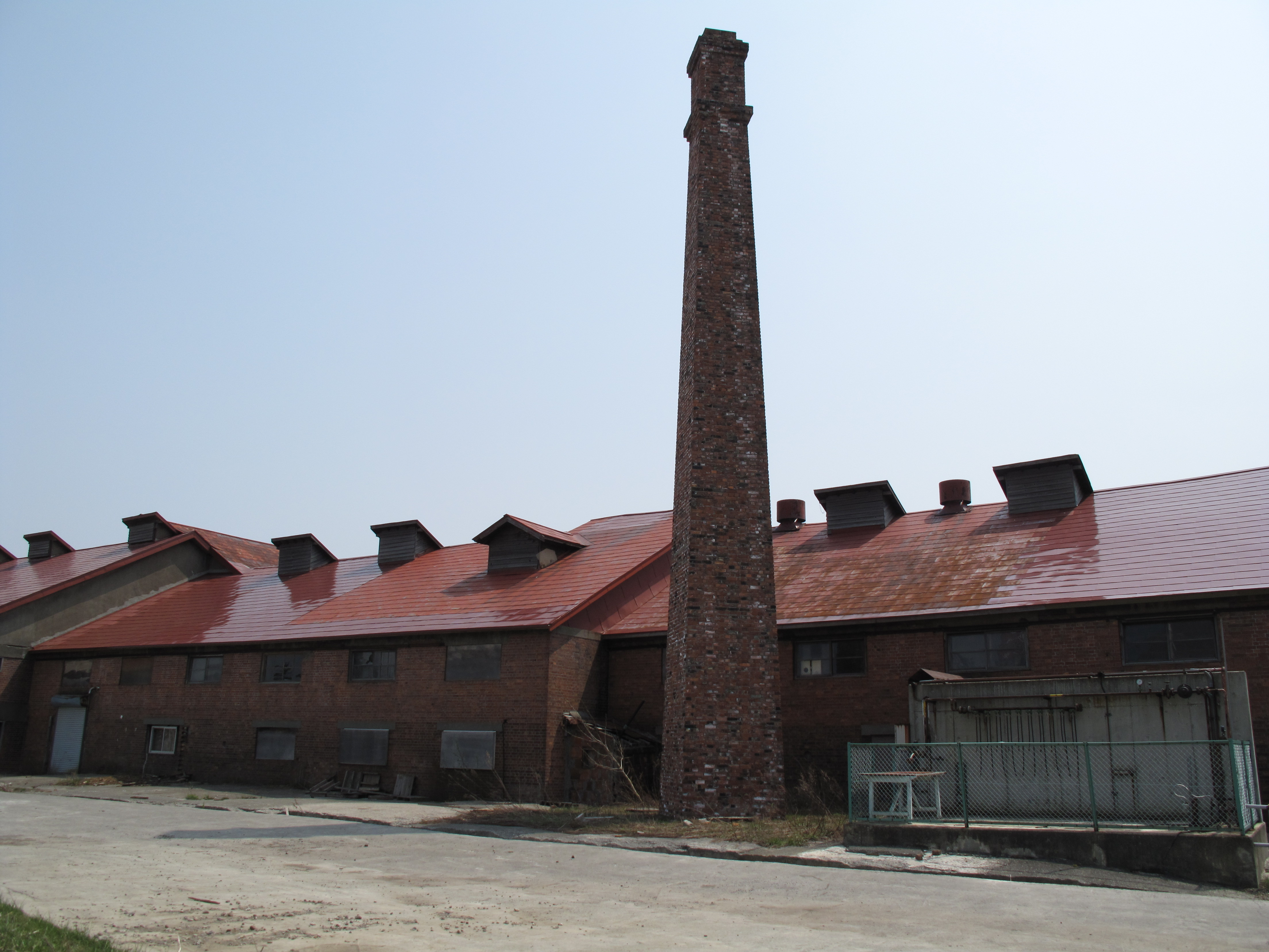 "Old-HIDA brick factory" , Ebetsu-shi Hokkaido, Japan